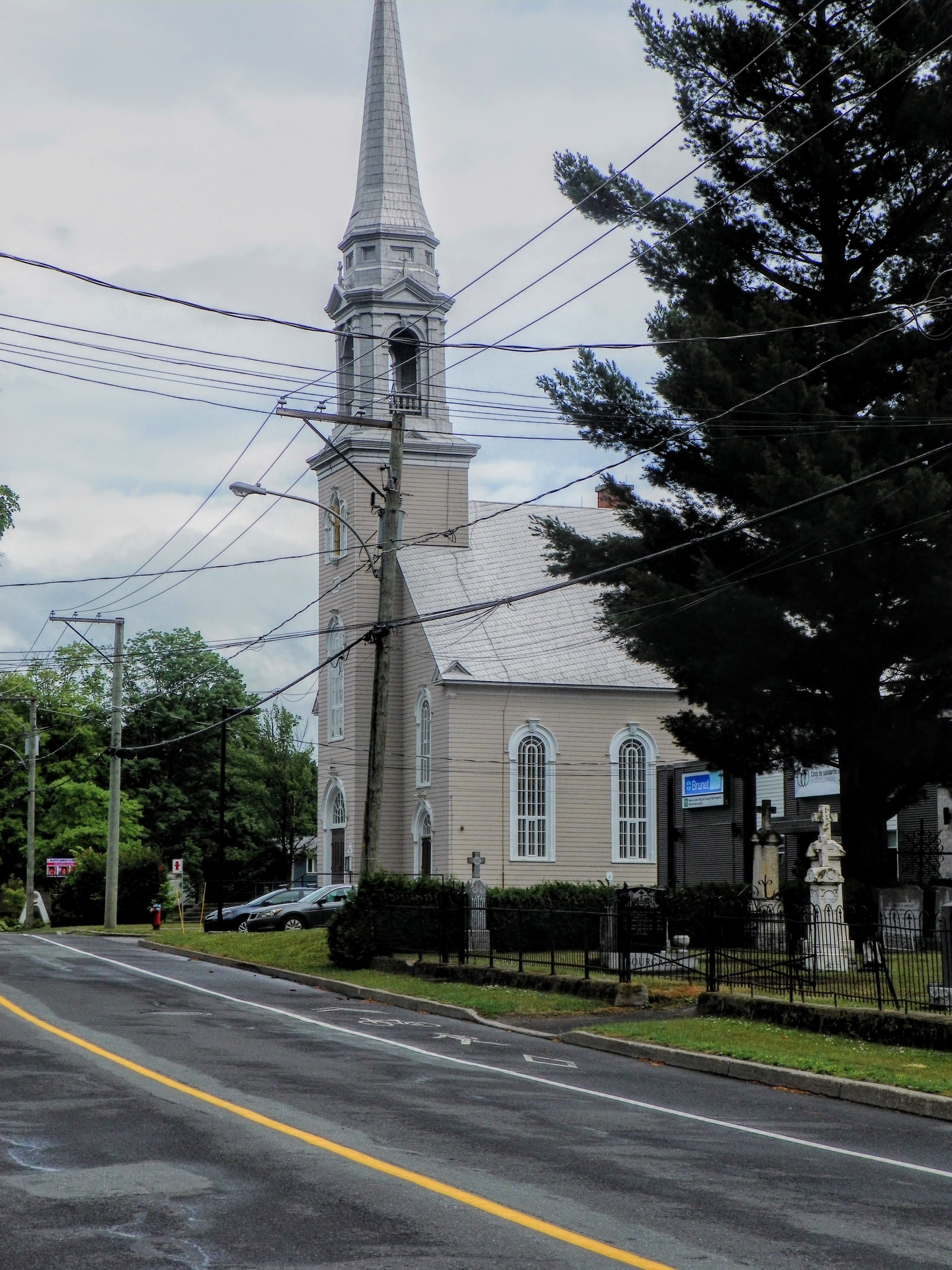 Saint-Patrice-de-Beaurivage church and cemetery.